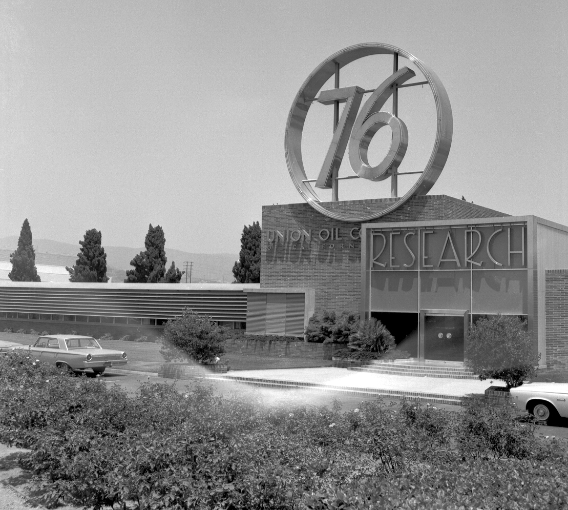 Union Oil Research — in Brea, Orange County, California (circa 1965). From the Orange County Archives - Planning Dept. collection, image PC1960. There are no known copyright restrictions on this image. All future uses of this photo should include the courtesy line, "Photo courtesy Orange County Archives."